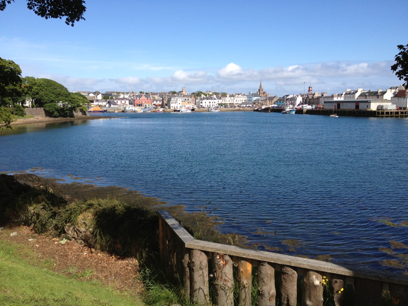 Stornoway, Isle of Lewis Gàidhlig: Steòrnabhagh, Eilean Leòdhais